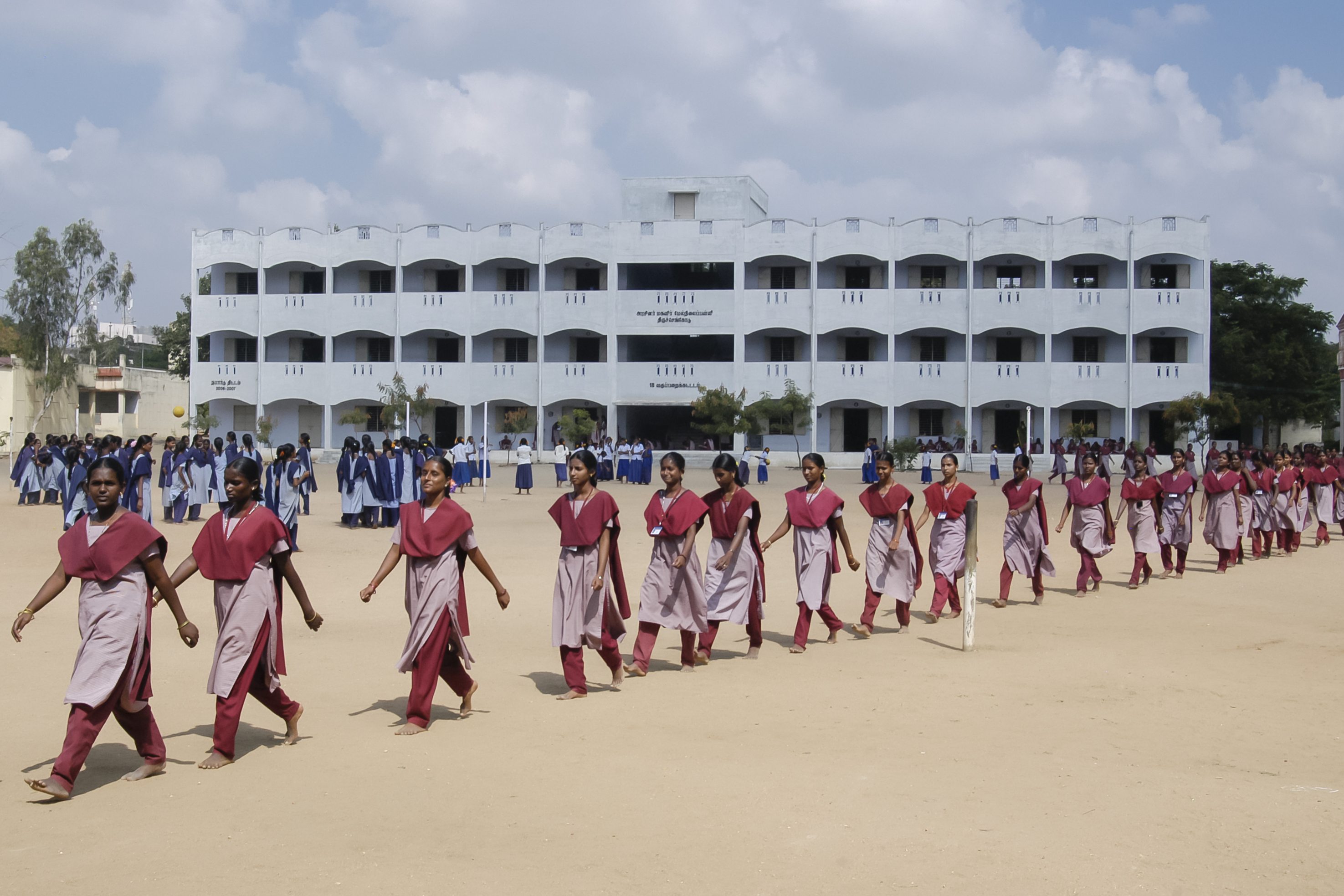 Women at an all women's school in Salem, Tamil Nadu, India